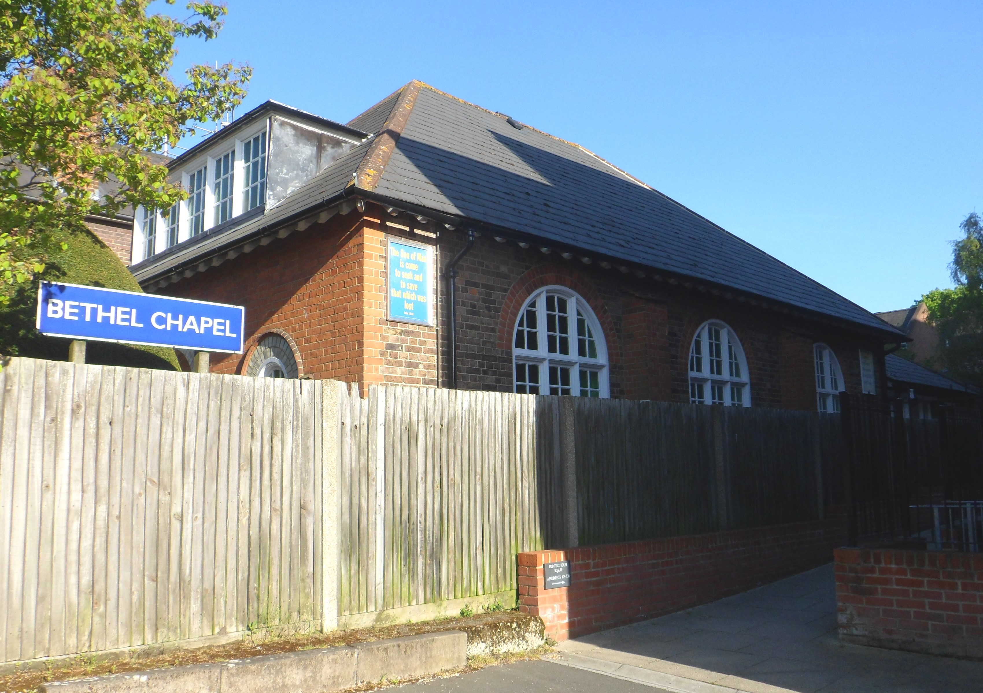 Bethel Strict Baptist Chapel, The Bars, Guildford, Borough of Guildford, Surrey, England. Built in the early 20th century for a Strict Baptist congregation established much earlier.